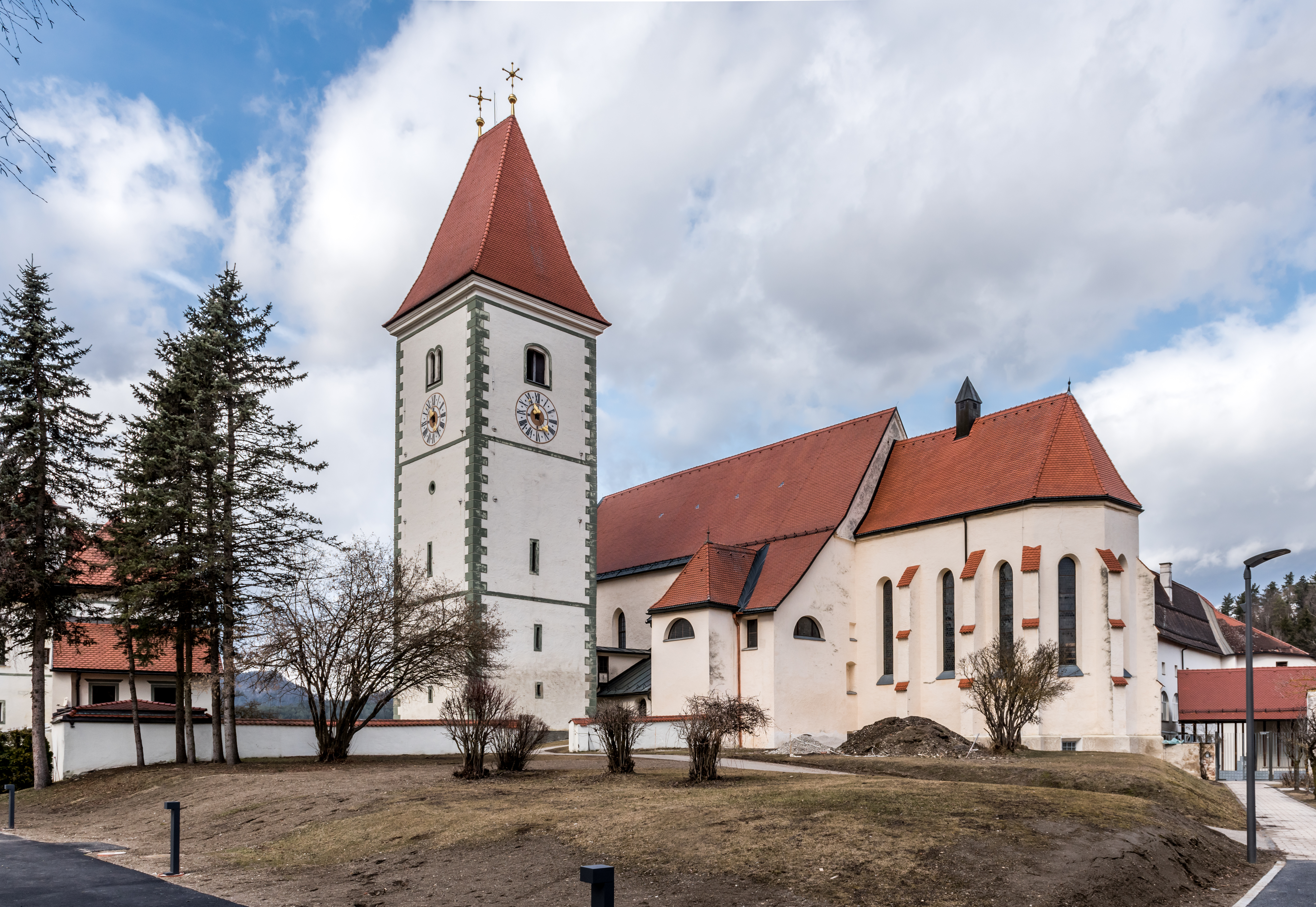 Southern view of the monastery of Augustinian Canons on Kirchplatz #1, market town Eberndorf, district Völkermarkt, Carinthia, Austria, European Union